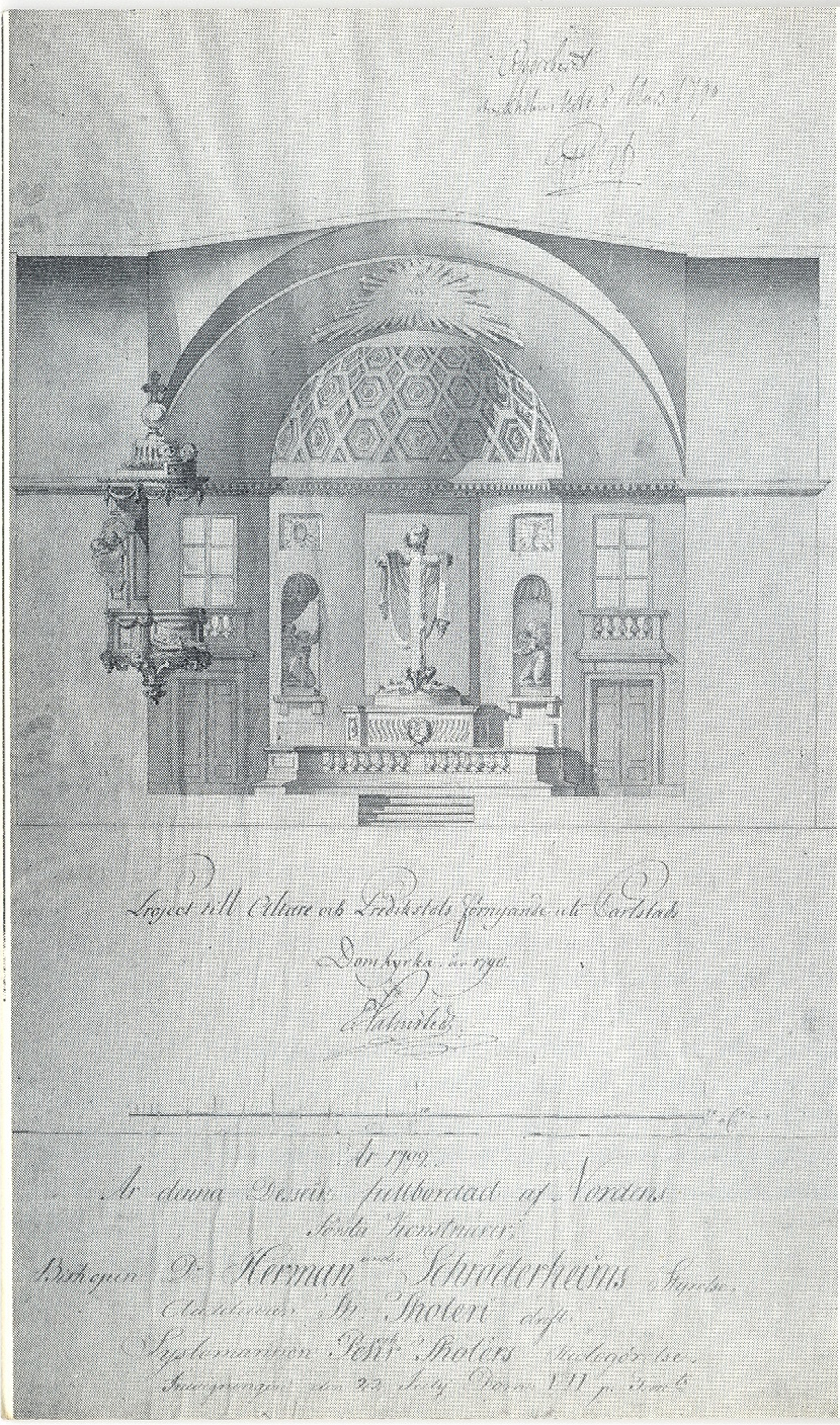 Architect Palmstedt's plan of a new choir from 1790 in the somewhat older church with a new altar and a new pulpit. The signature of king Gustav III is visible on the top of the document.